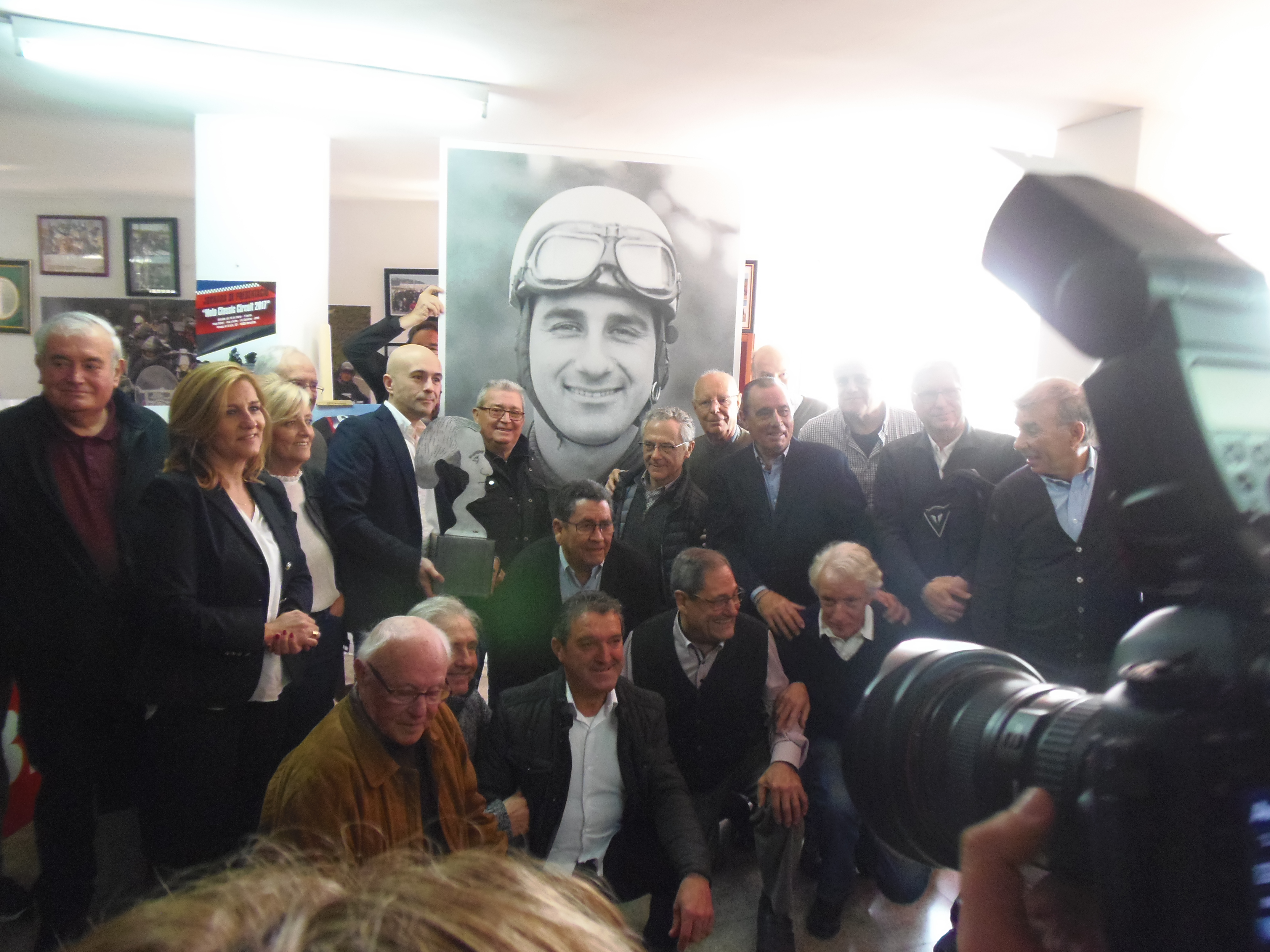 Several participants in the Homage to Paco Tombas. From left to right you can see Josep Bermúdez, Paco Tombas's daughters and son, Joan Santamans, Min Grau, Champi Herreros, Salvador Cañellas, Jaume Garriga, Josep Isern, Josep Maria Busquets, Toni Palau, Ramon Galí, Josep Maria Alguersuari, Jaume Alguersuari and others.